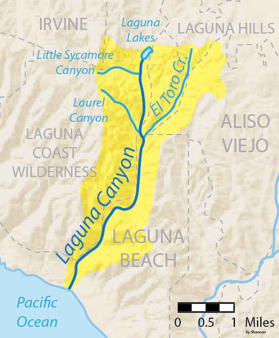 Map of the Laguna Canyon Watershed in Orange County, California.